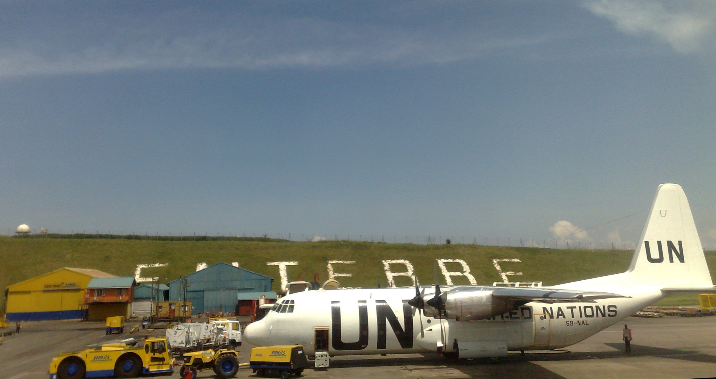 A Lockheed L-100-20 Hercules in UN livery at Entebbe, preparing for yet another flight to Eastern Congo.